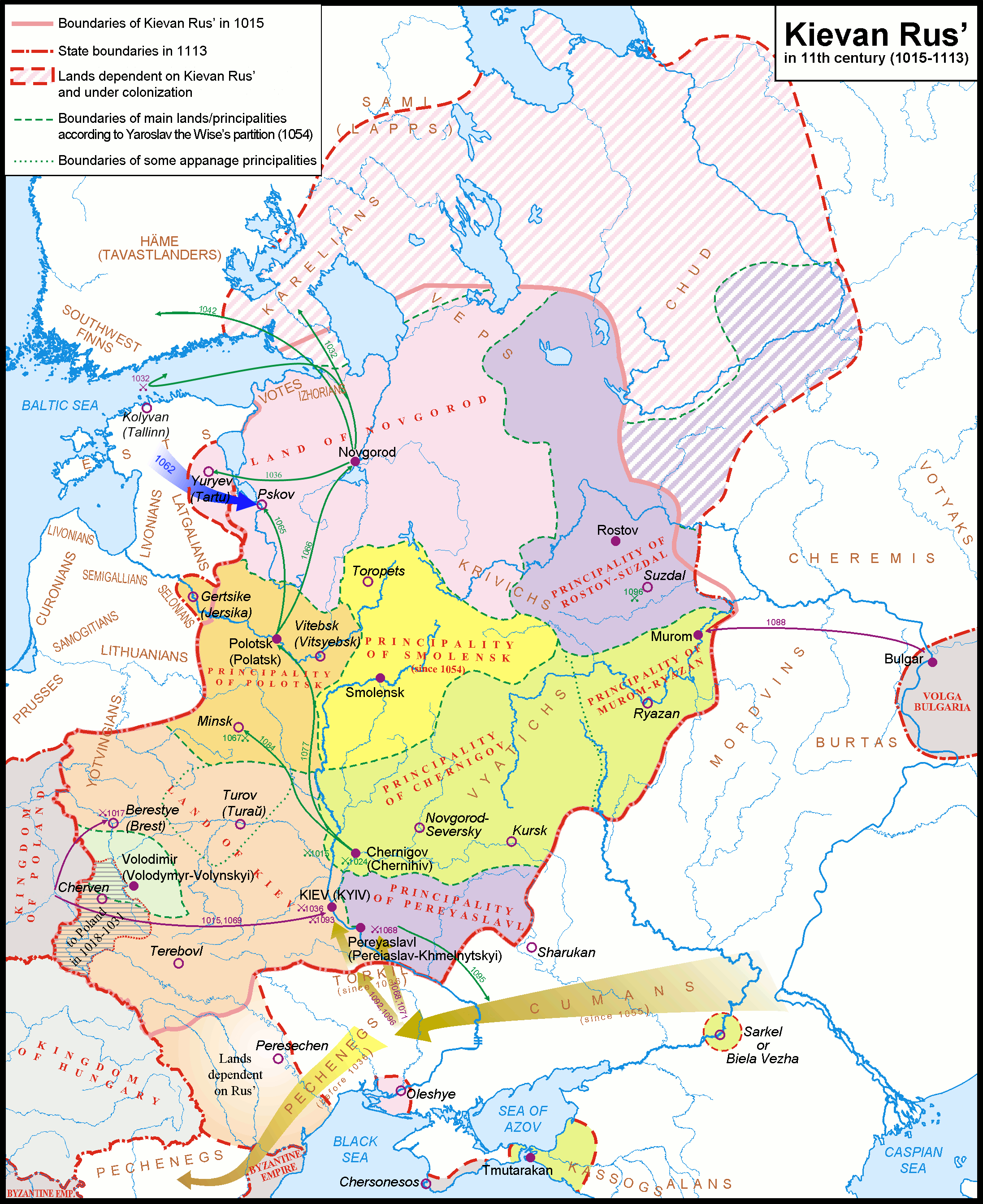 Map of the Kievan Rus' realm, 1015-1113 CE